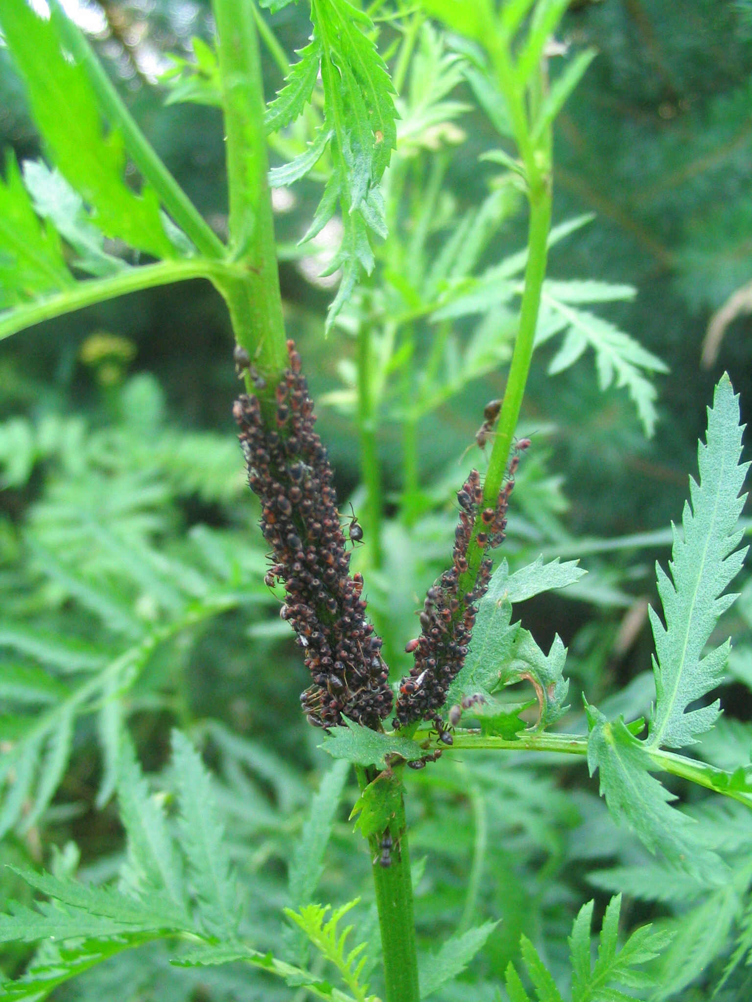 Ants visiting a colony of Aphids